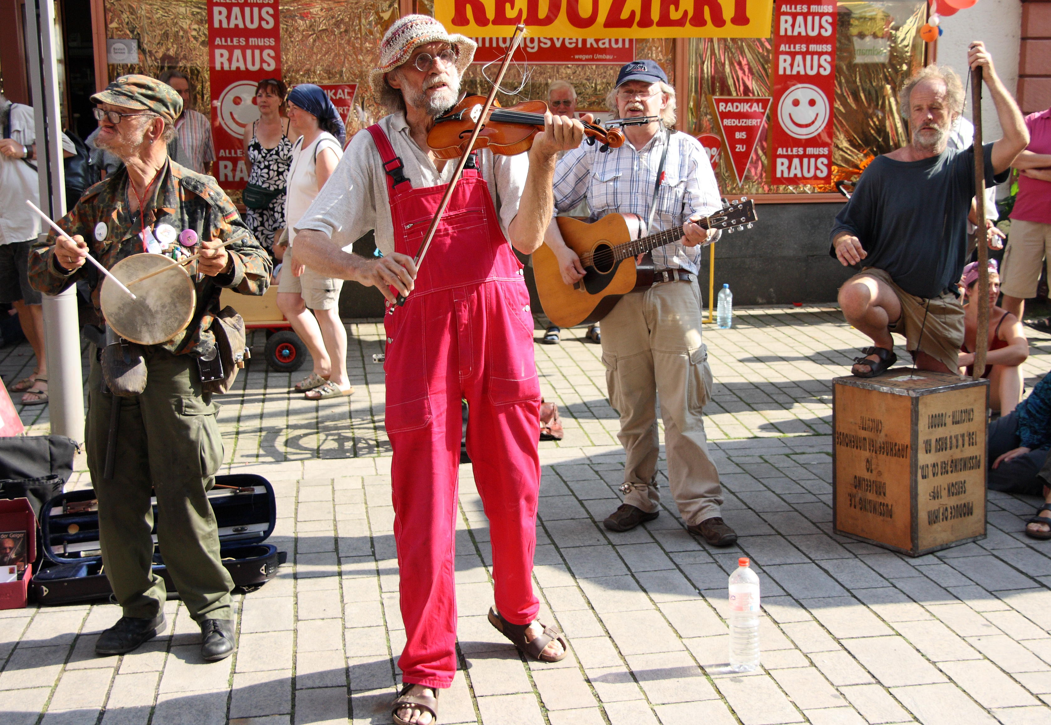 Violinist and busker Klaus der Geiger with band at the TFF-Festival, Rudolstadt